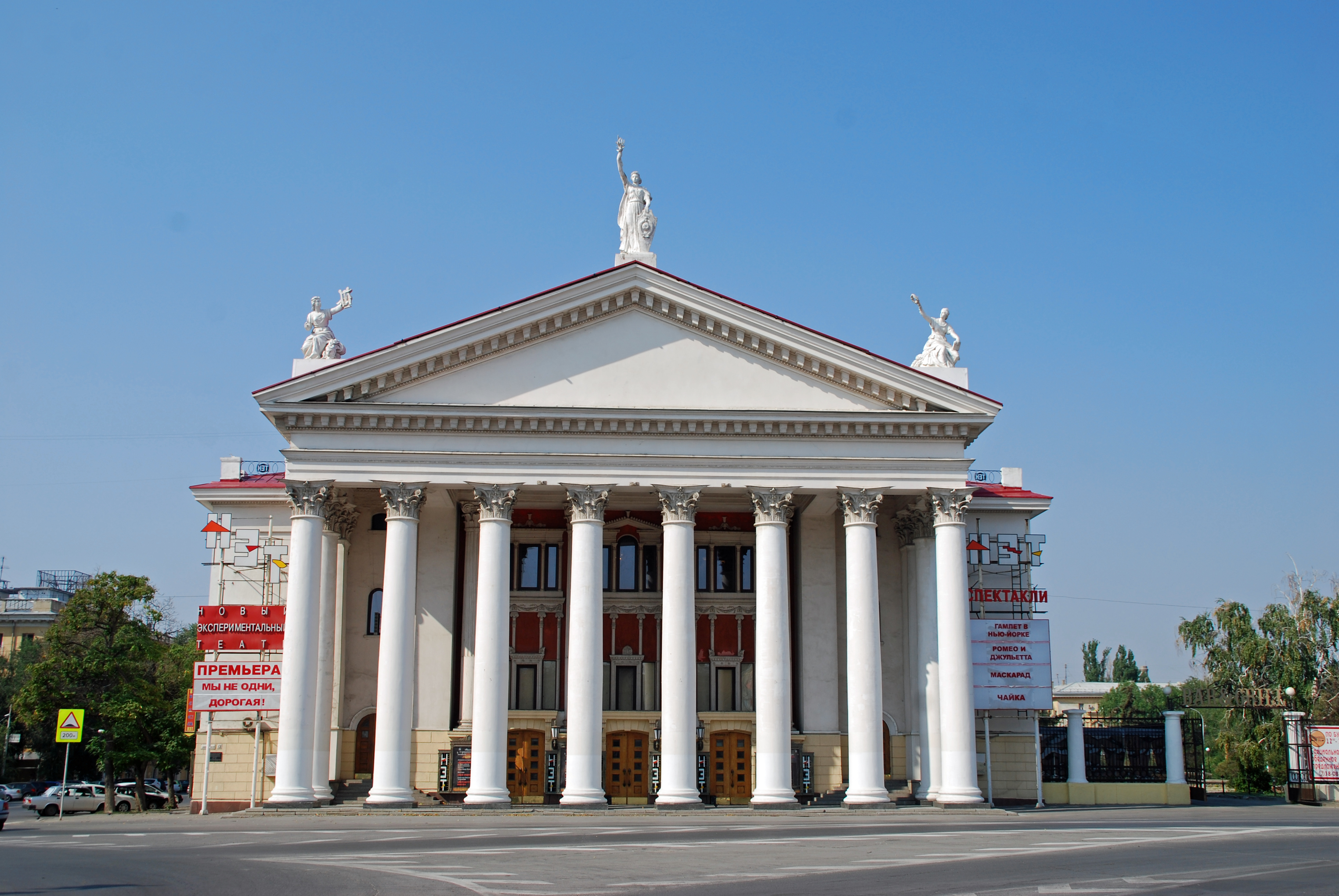 New Experimental Theatre. Volgograd.